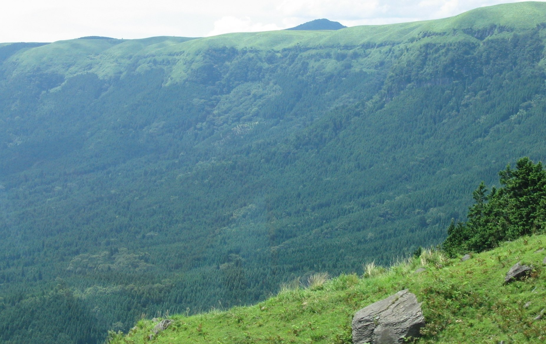 Aso caldera near Mt. Aso. I couldn't take a picture of the whole caldera without getting into a space shuttle. Here's the very edge of it.